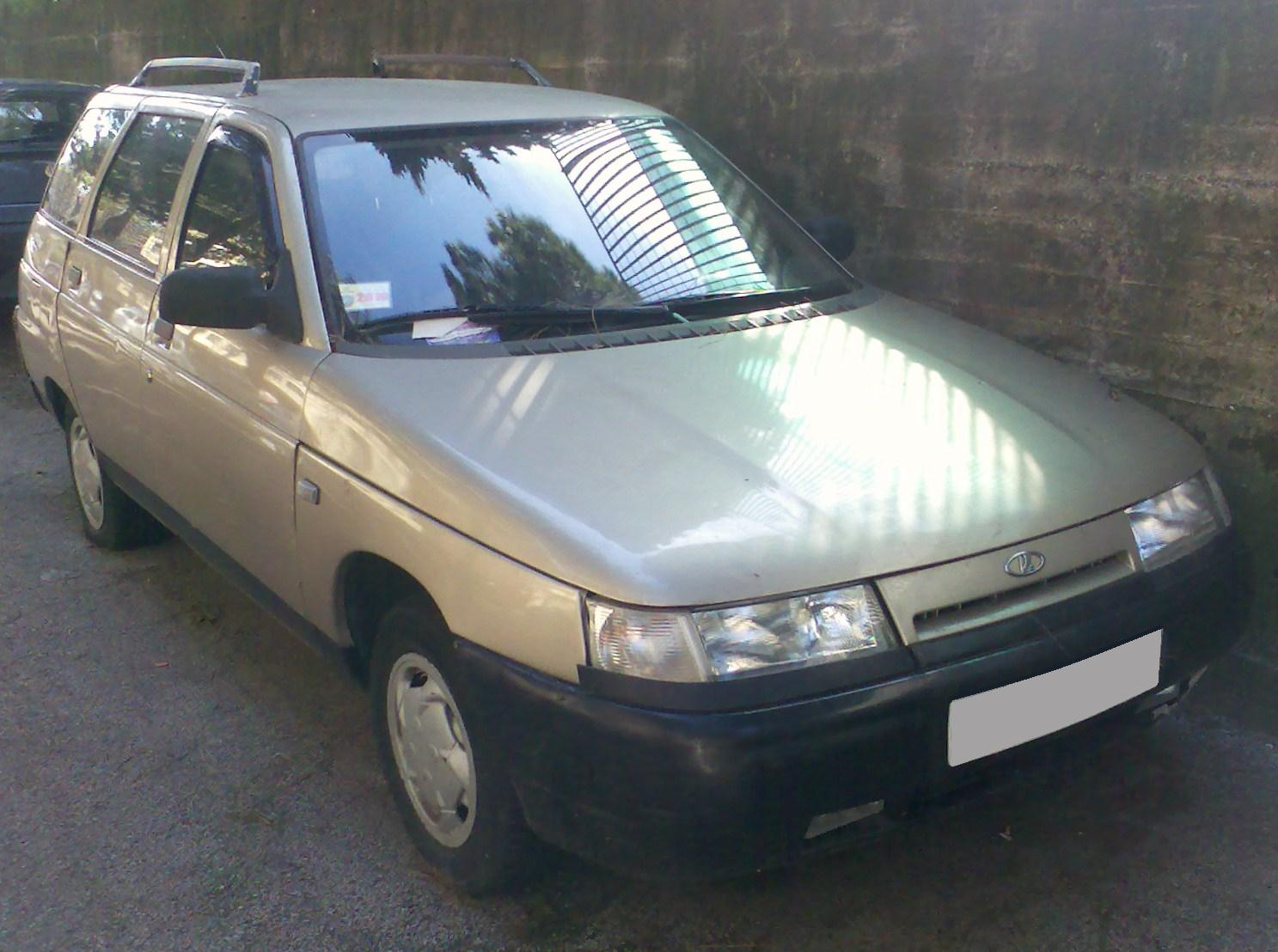 Lada 111 (Series 2111 wagon)